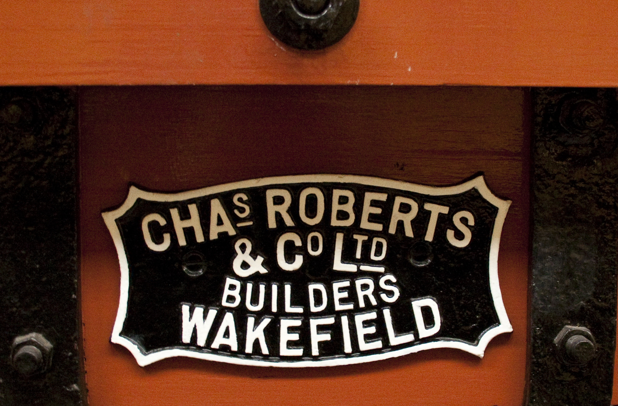 I haven't any real interest in Wagons, but Horbury Junction was my first experience of Steam engines